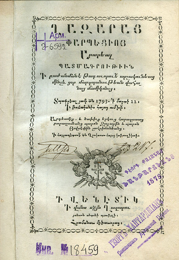 Ghazar Parpetsi. History of Armenia